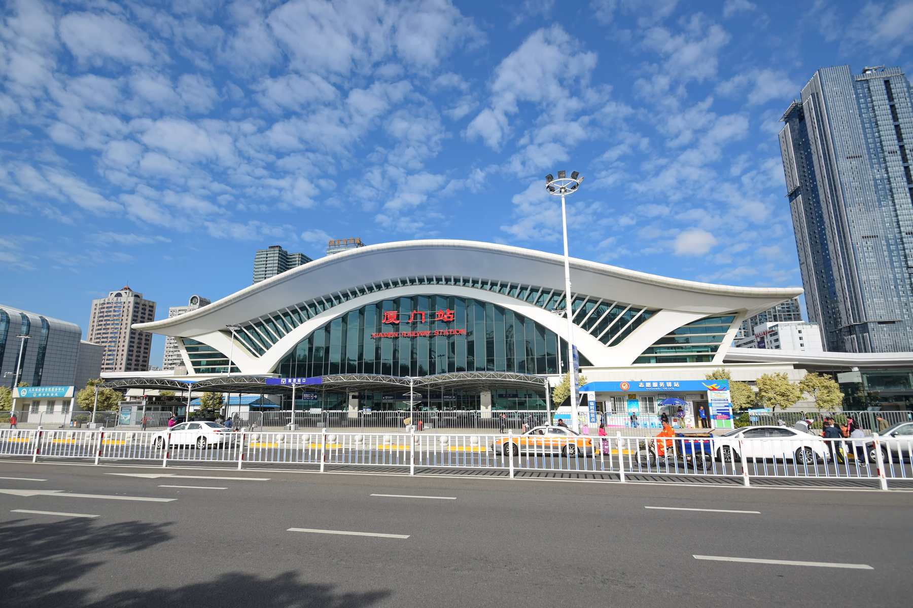 South Square of Xiamen Railway Station